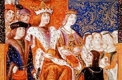 Fernando and Isabel, the Catholic Monarchs. The youth to their right almost certainly is their son Don Juan, Prince of Asturias. The girls to their left are more of a mystery, but it could be the three infantas (princesses), although their ages are not correctly depicted.